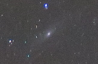 Andromeda Galaxy, photographed with a Canon PowerShot G3X. Aperture 2.8, 15 seconds, 24 mm focal length (35 mm format factor equivalent), ISO 3200. The picture shows a cropped area of 4.59 x 2.99 degrees.